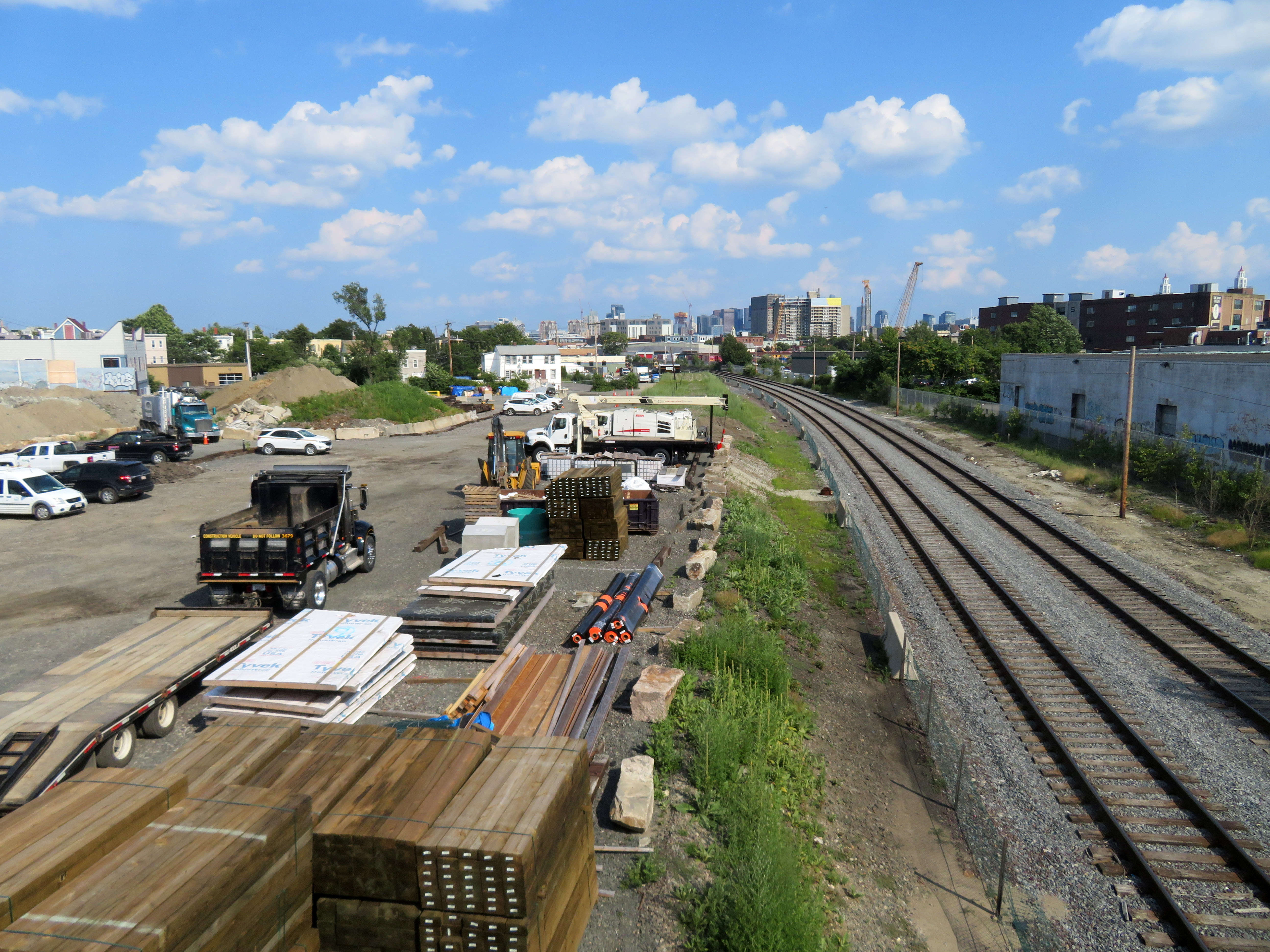 The future site of Union Square station in July 2019